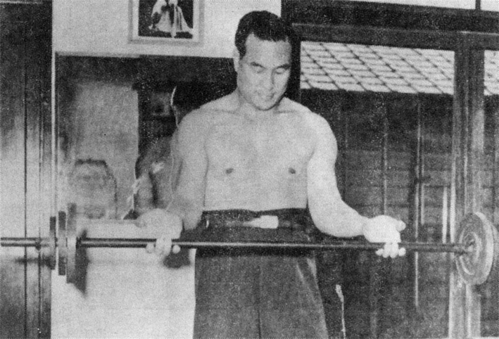 Masutatsu Oyama,training